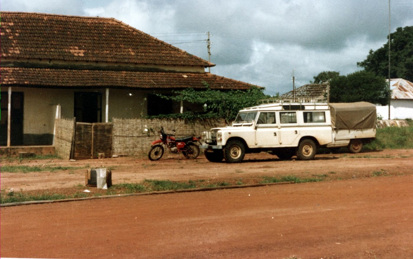 This was the medical doctor's residence in Fulacunda, Quinara province, Guinea Bissau, 1980-1982.